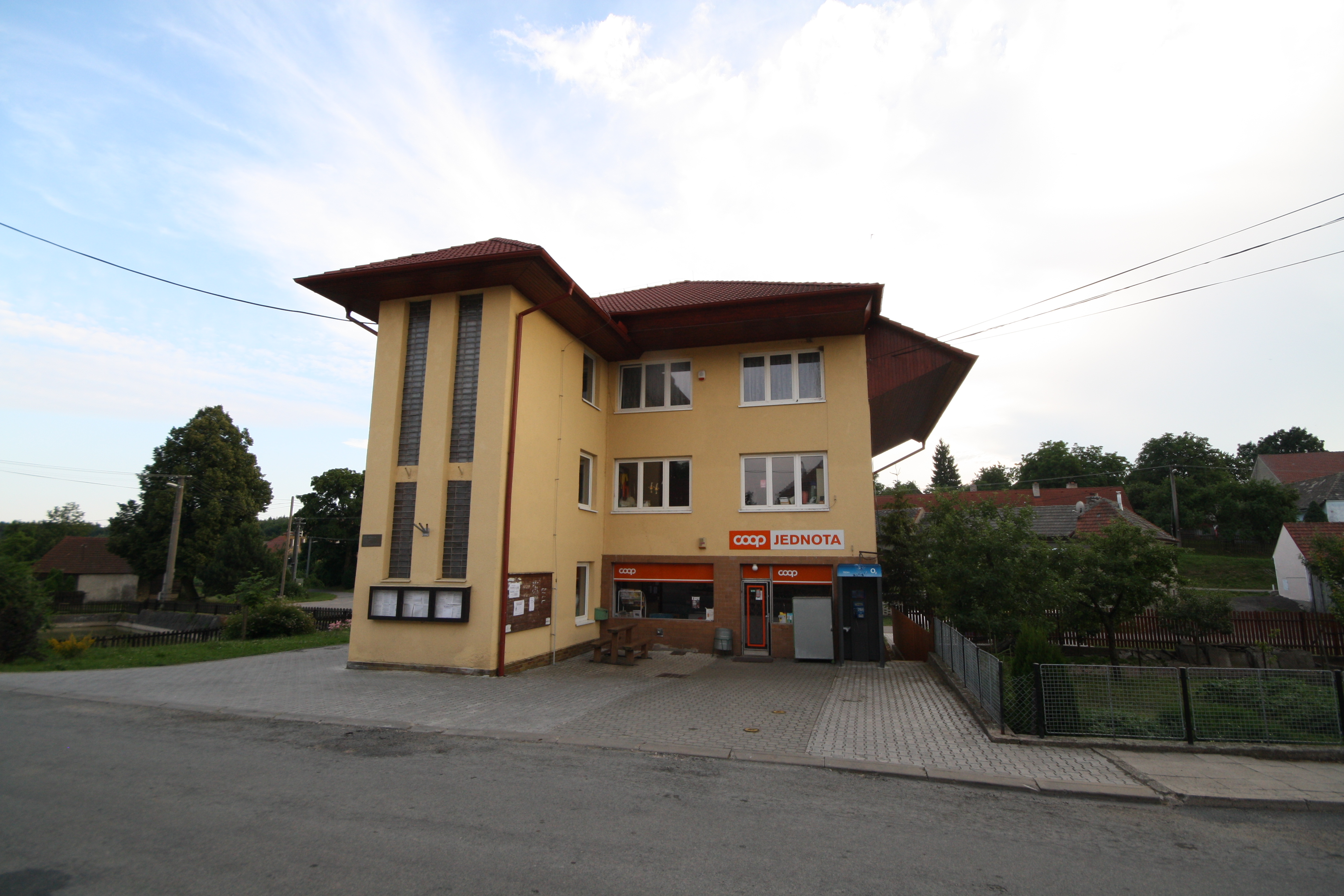 Municipal office in Hluboké, Třebíč District.